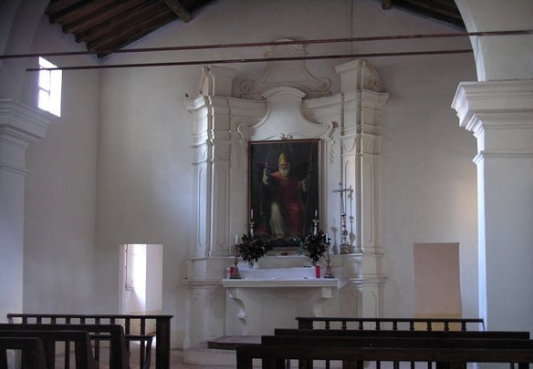 Chiesa di San Cerbone - Elba